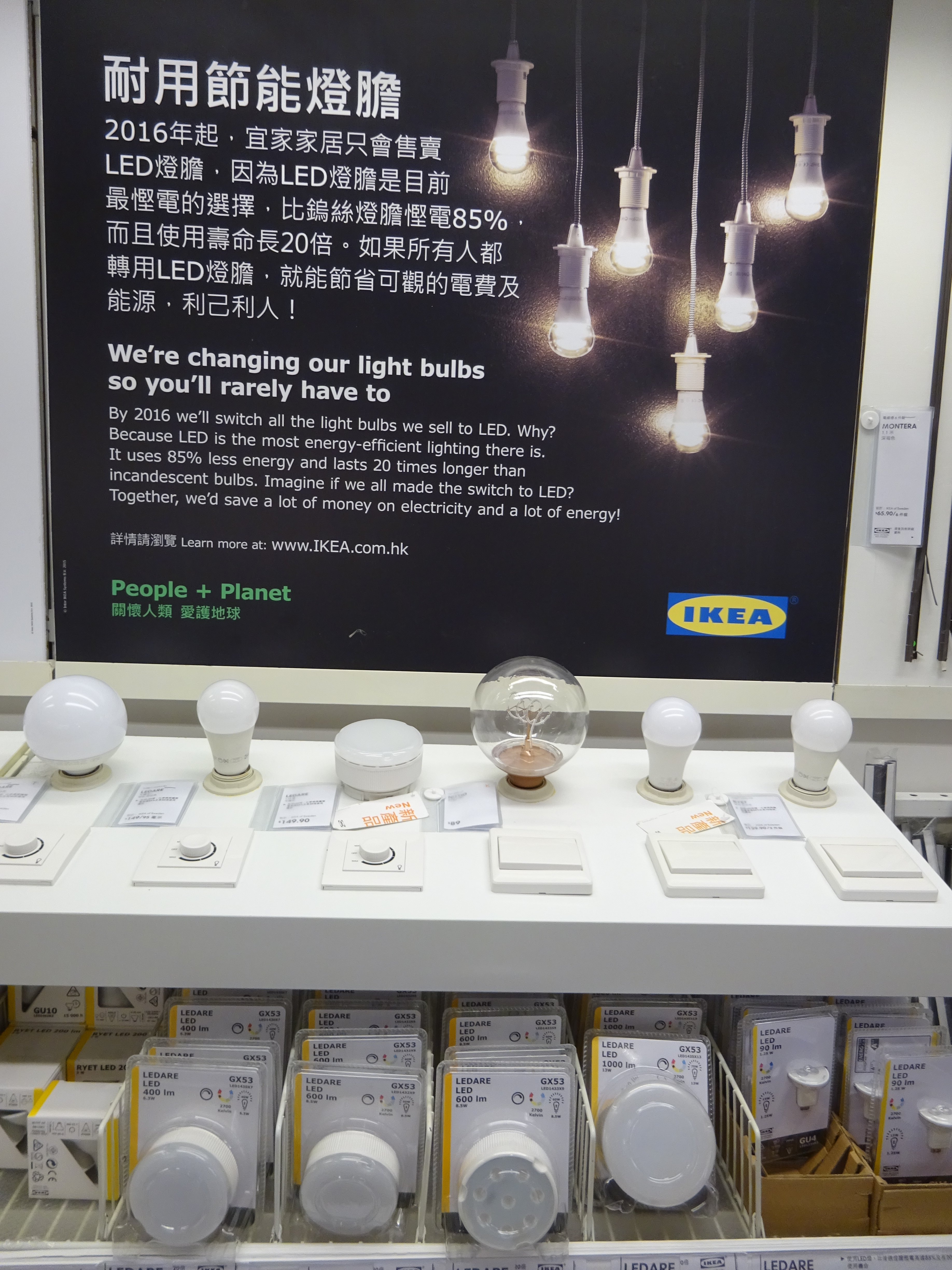 Lamp lighting products at IKEA Hong Kong, Causeway Bay, The Park Lane Hong Kong, Hong Kong